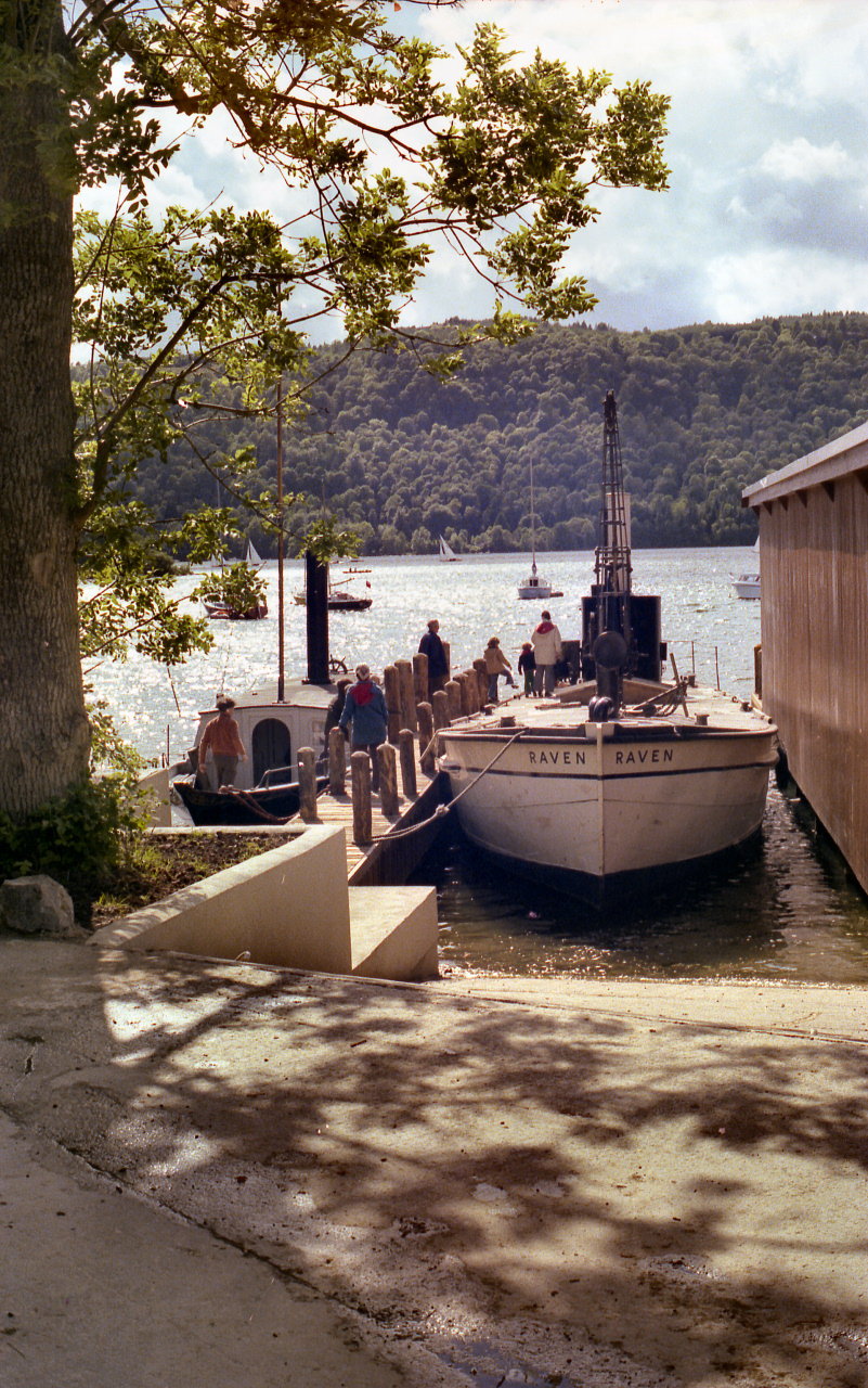 Windermere Steamboat Museum Jetty. The Windermere Steamboat Museum is on the shore of Lake Windermere, at Rayrigg Road, just to the north of Bowness-on-Windermere. Prior to being acquired by the Windermere Nautical Trust in 1975, the site was for many years where the barges unloaded gravel dredged from the bed of Lake Windermere. The Museum was built in 1976-77 with the help of The Maritime Trust and the English Tourist Board. This photograph shows the steamboat ‘Raven’ at the jetty outside the museum shortly after it had opened in 1977.